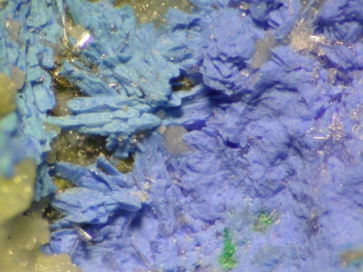 Juangodoyite Locality: Santa Rosa Mine, Santa Rosa-Huantajaya District, Iquique Province, Tarapacá Region, Chile Field of view 5 mm. Specimen and photo Leon Hupperichs.